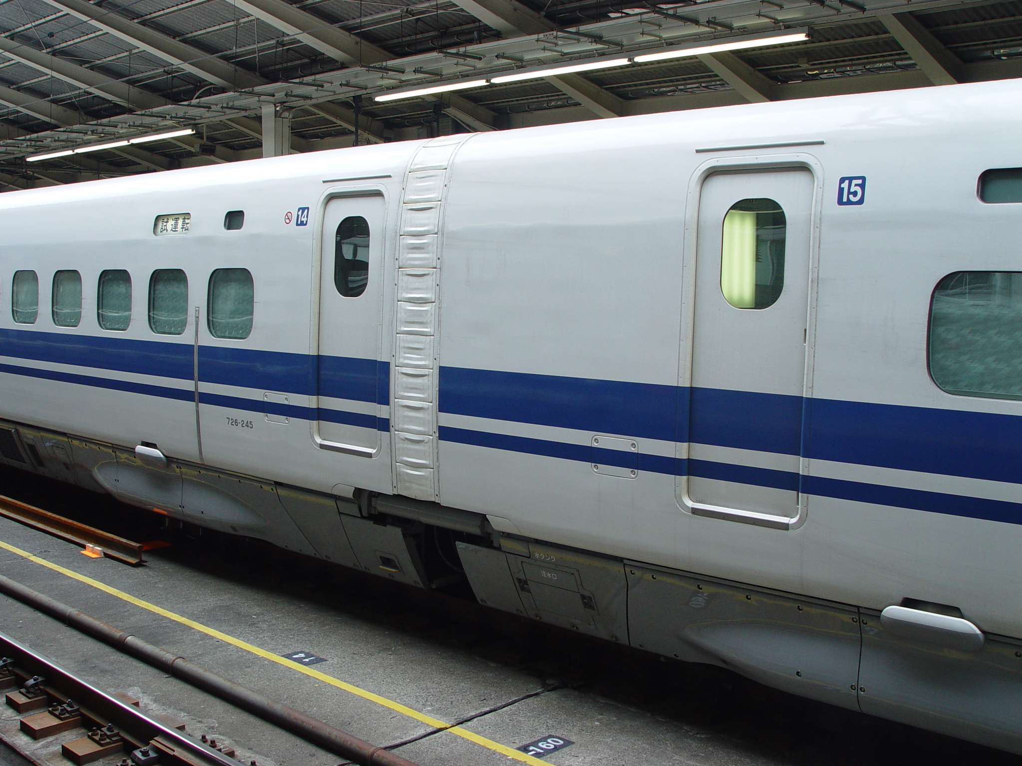 JR Central 700 series set C46 on a test run at Tokyo Station with experimentally added flush diaphragm shrouds and bogie covers